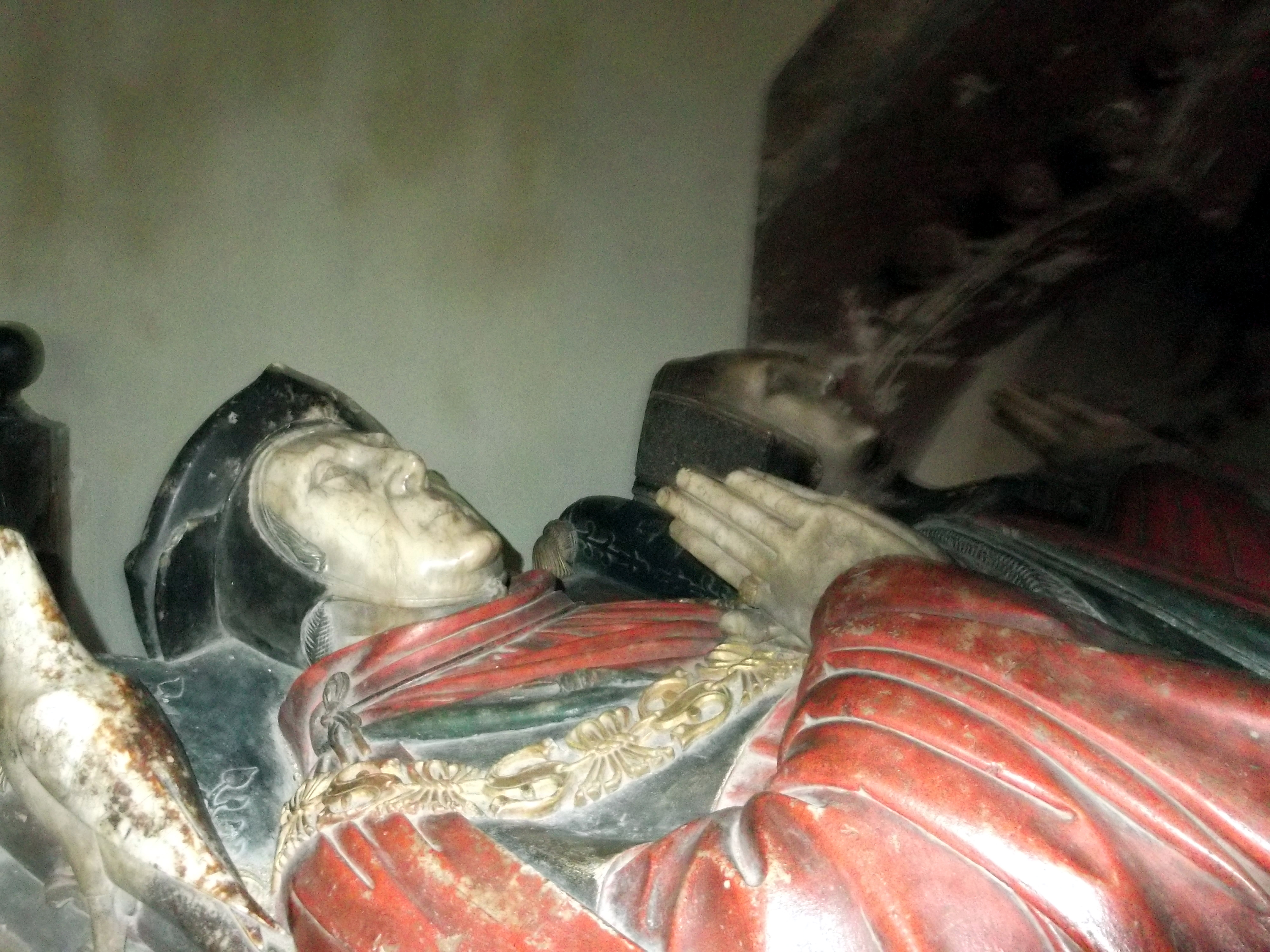 Effigies of Thomas Bromley, appointed Chief Justice of the Queen's Bench by Mary, 1553, buried Wroxeter, 1555, and his wife, Isabel Lyster. St Andrews parish church, Wroxeter, Shropshire.